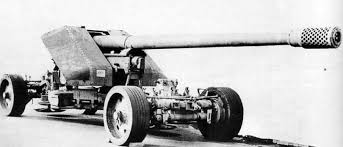 heavy anti-tank gun